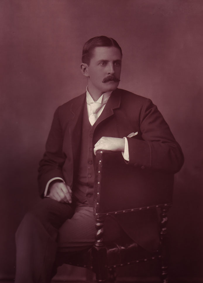 Portrait of Thomas Heazle Parke (1857-1893), Irish doctor and explorer, Woodburytype, 9.7 x 7.1 in (247 mm x 180 mm)